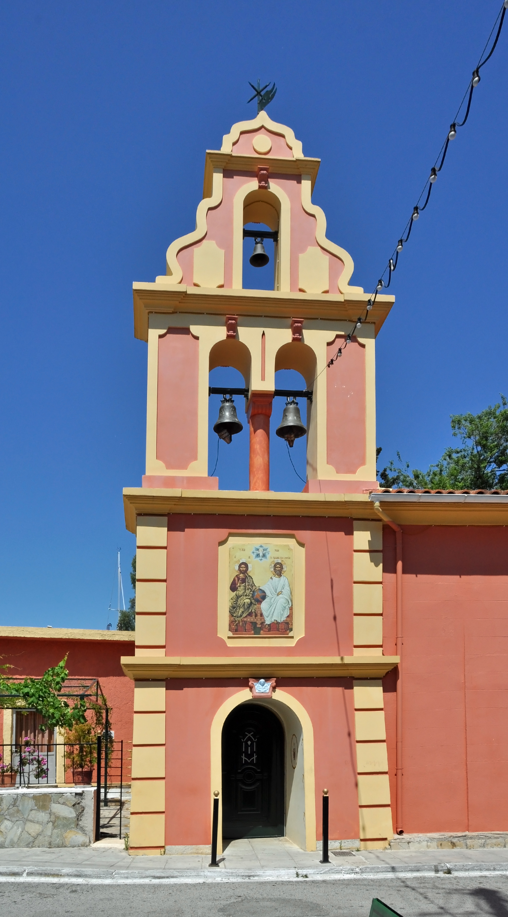 Kontokali (Corfu, Greece): Holy Trinity Orthodox church (Agias Triados)